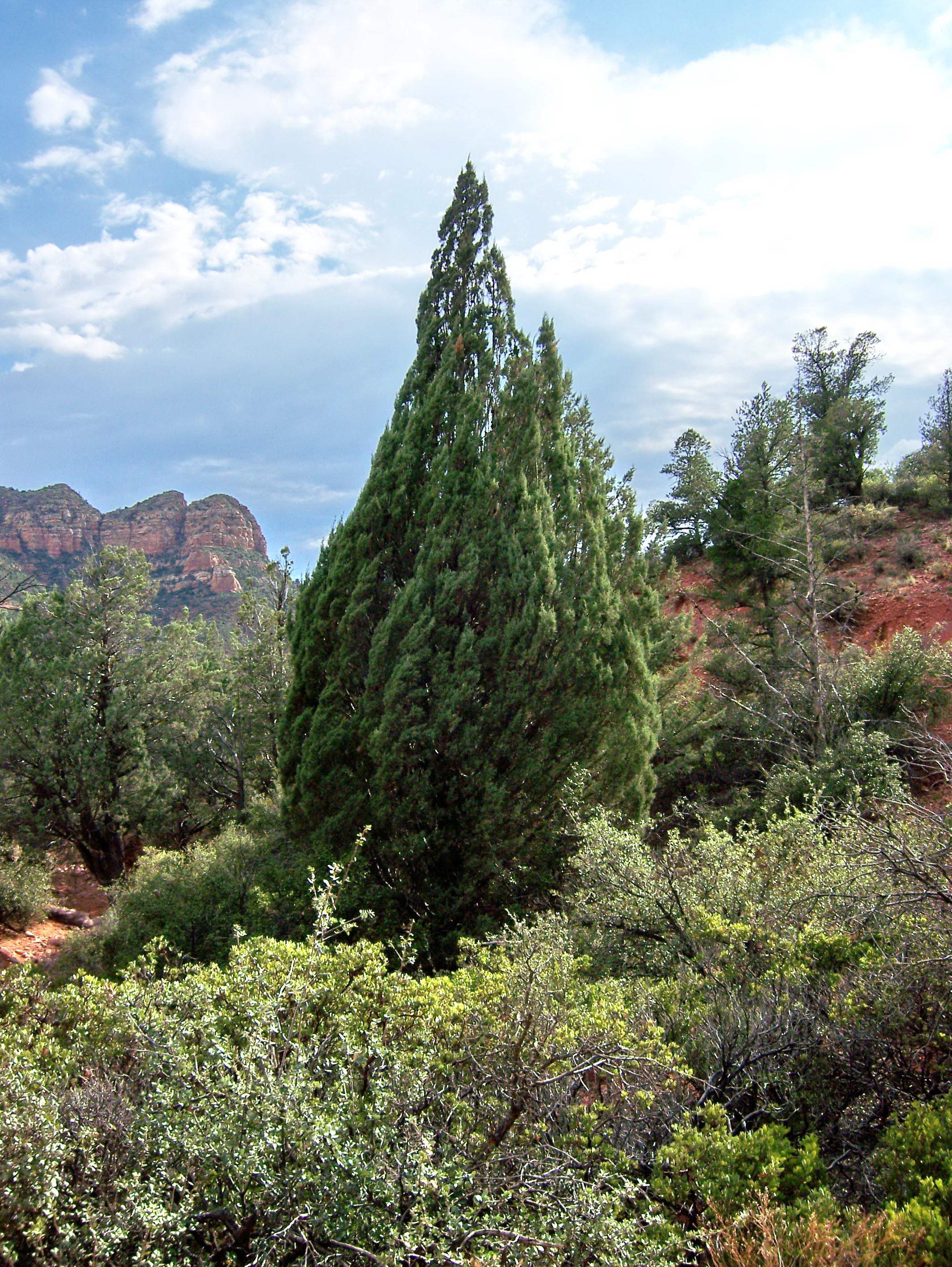 Cupressus glabra — endemic to area near Sedona, Coconino County, Arizona.